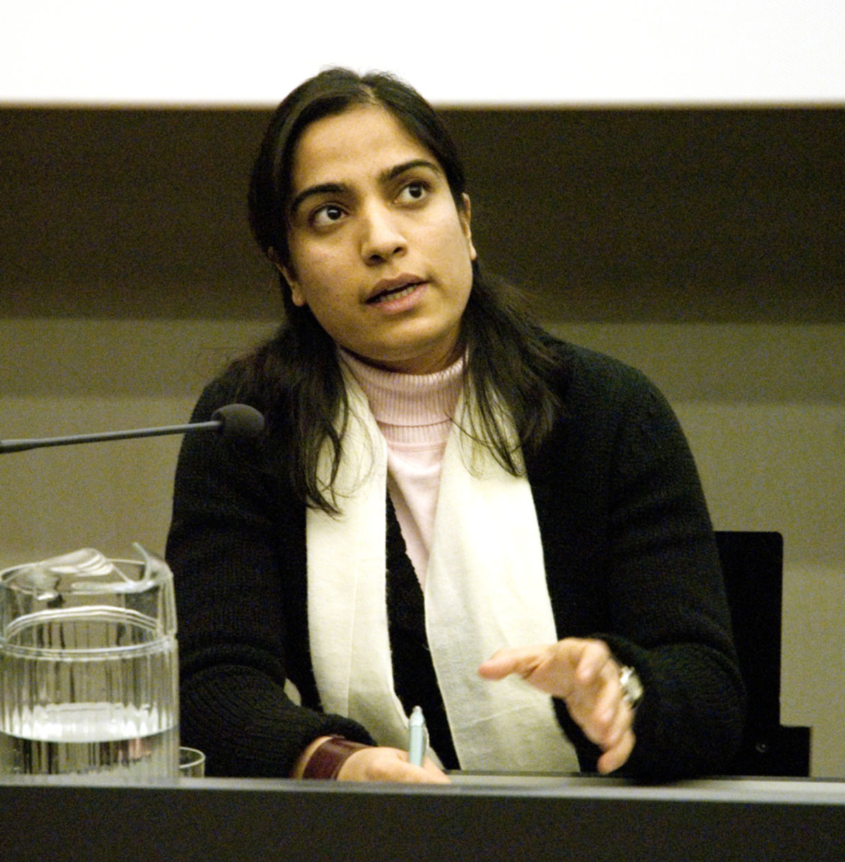 Malalai Joya, the brave Afghan women delivering speech in a UNIFEM event in Finland on Nov.17, 2007